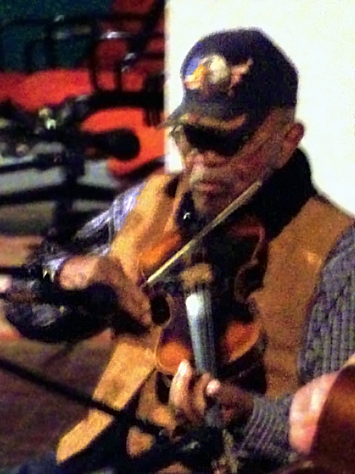 Old-time fiddler Joe Thompson